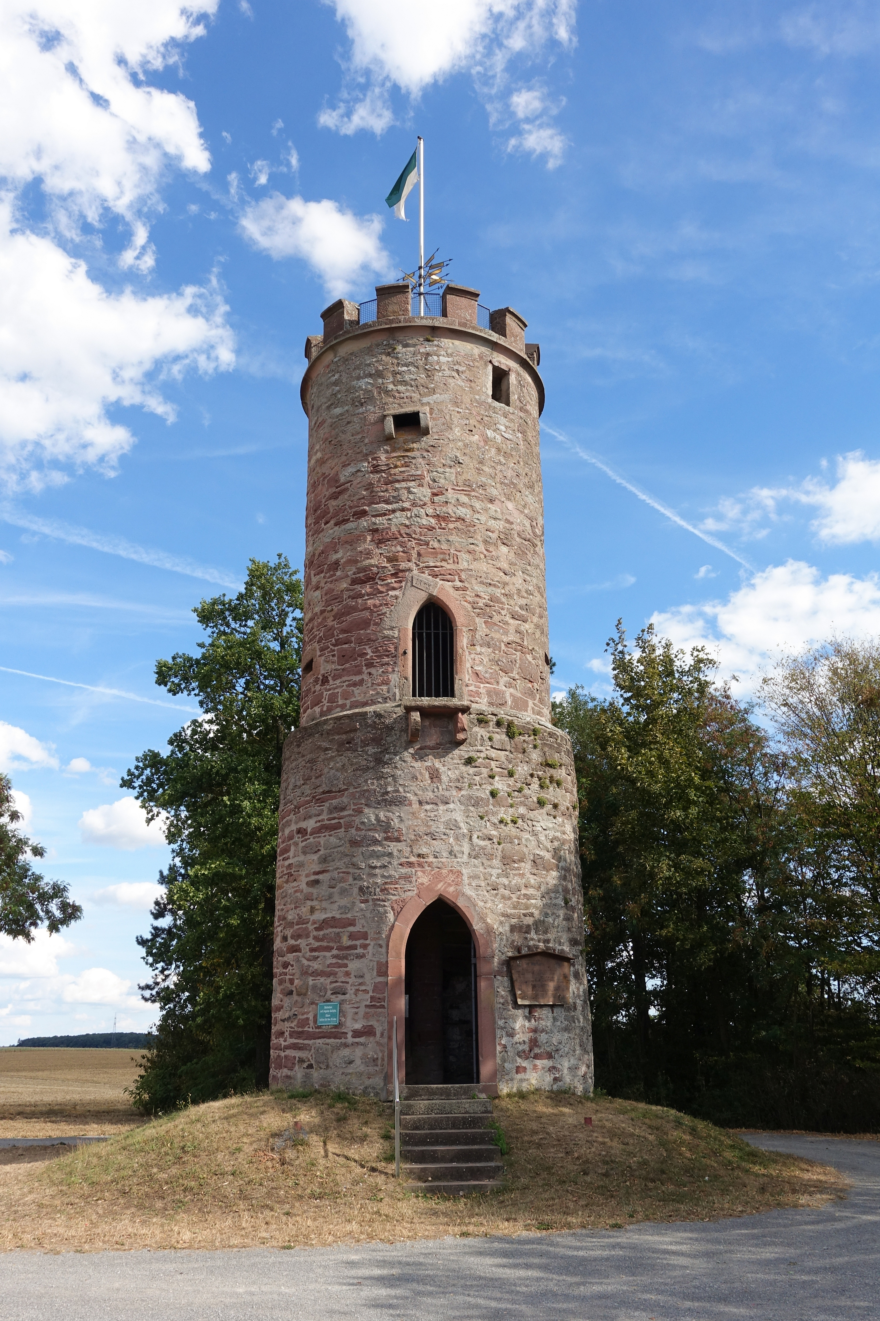 Barbican, Buchen (Odenwald), Germany